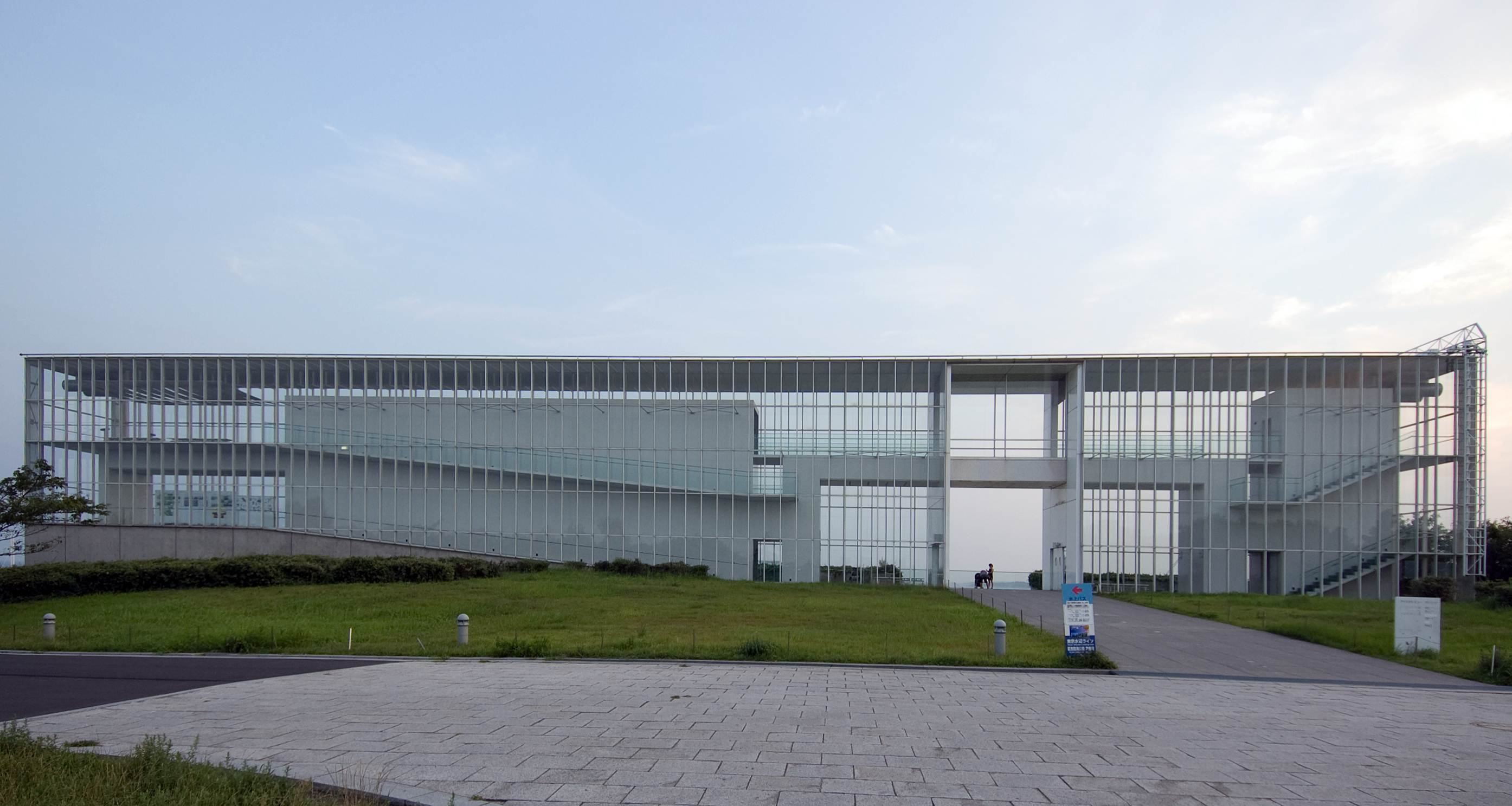 Kasai-Rinkai-Park View Plaza Rest House, at Kasai Tokyo Japan. Design by Yoshio Taniguchi in 1995.